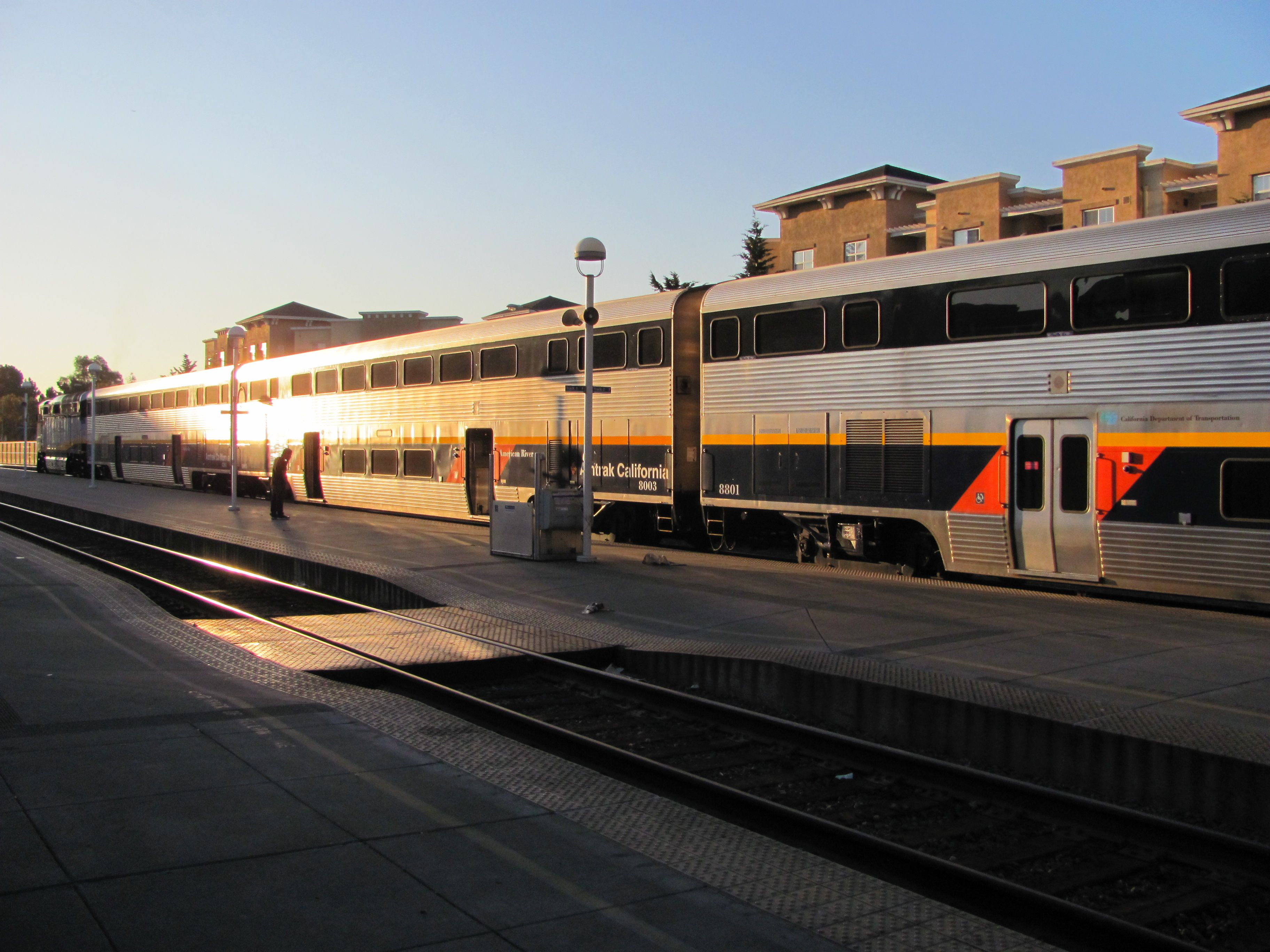 Capitol Corridor in Oakland Jack London Sq. station